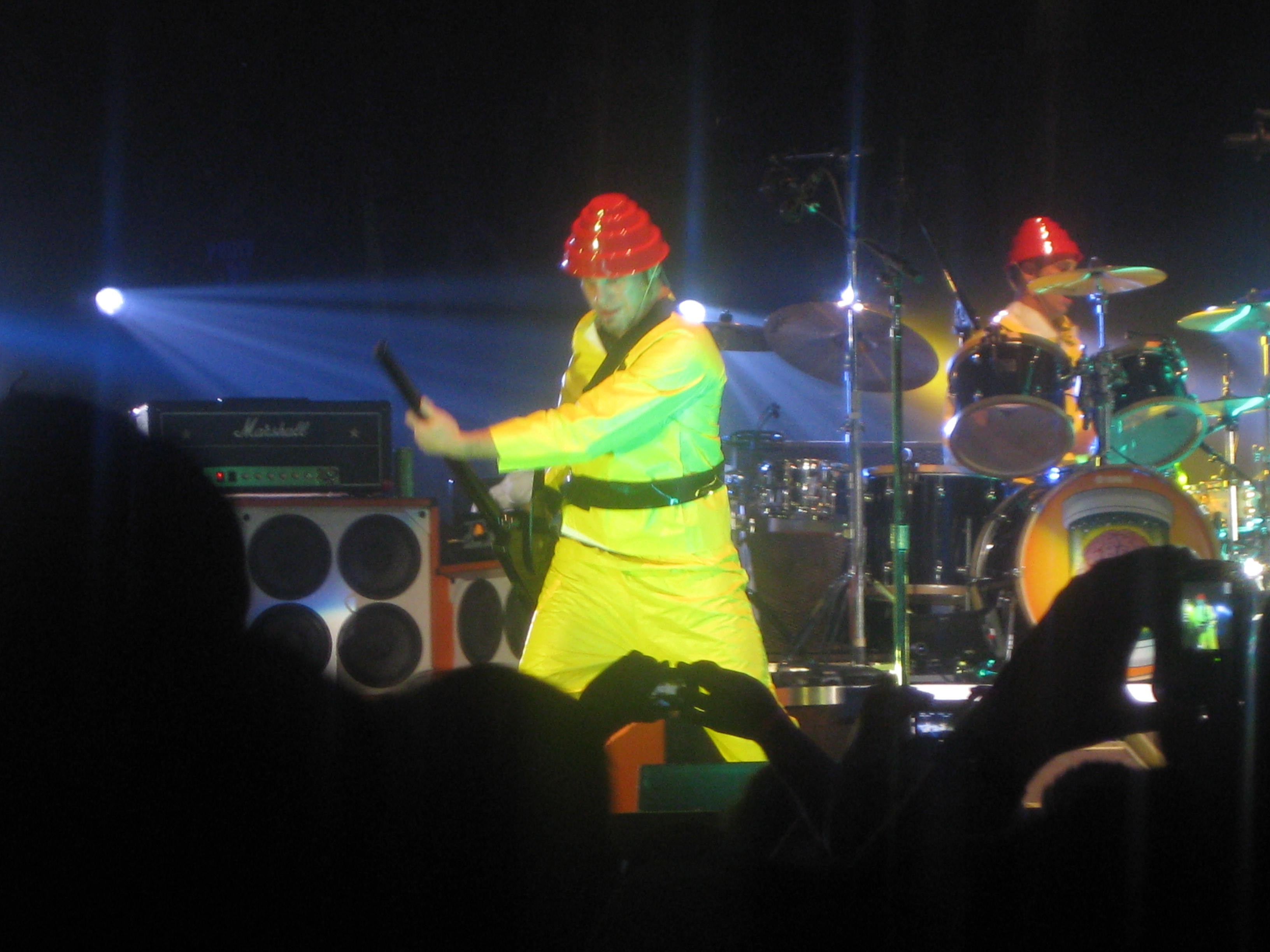 Jeff Ament and Matt Cameron of the band Pearl Jam performing a cover of the song "Whip It" by Devo. The two musicians are wearing yellow janitorial suits and red flower pot shaped hats, imitating the distinct look of Devo.